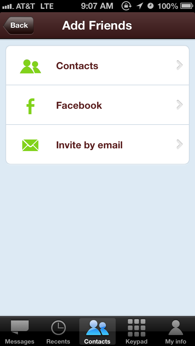 This is a screenshot of the Yuilop app, v1.9, on iOS (iPhone 5).